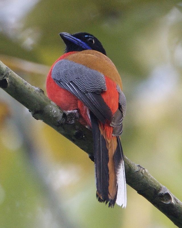 Scarlet-rumped Trogon - male Harpactes duvaucelii 14th. June, 2009 Location: Panti Forest, Johor, Malysia 690V7698